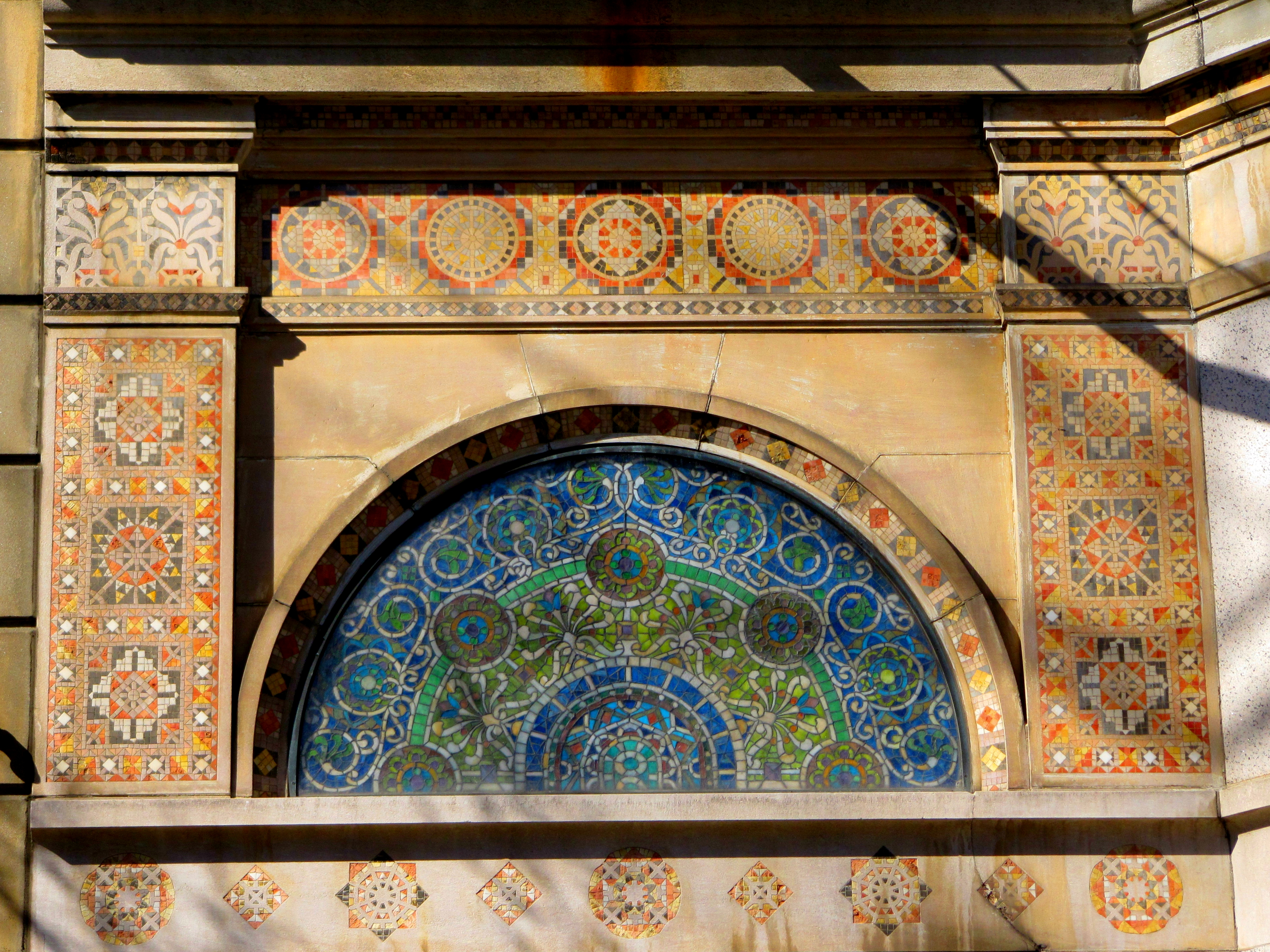 Exterior detail of Frederick Ayer Mansion on Commonwealth Avenue. April 2010 photo by John Stephen Dwyer